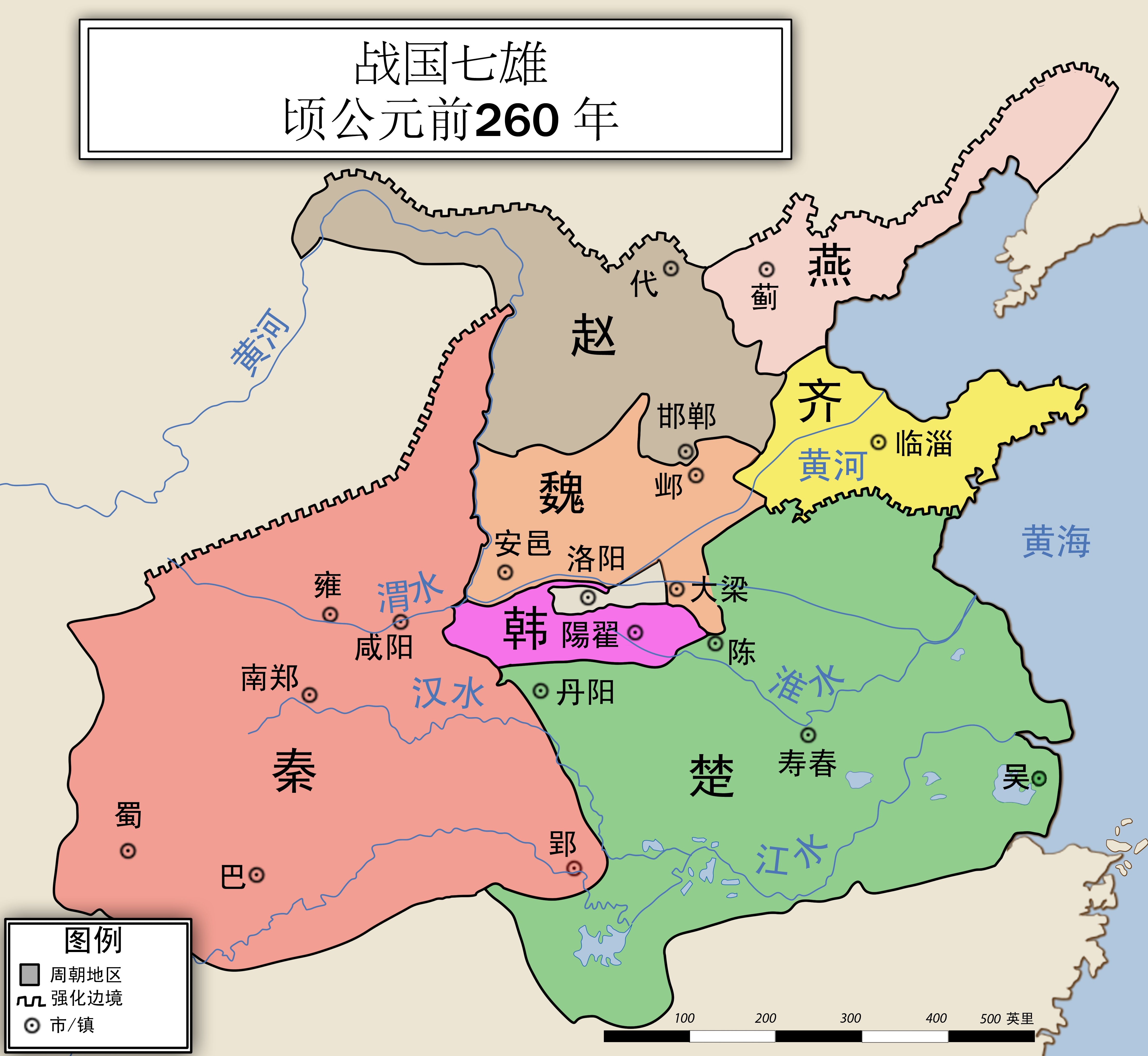 China Map 260BCE Warring States Period